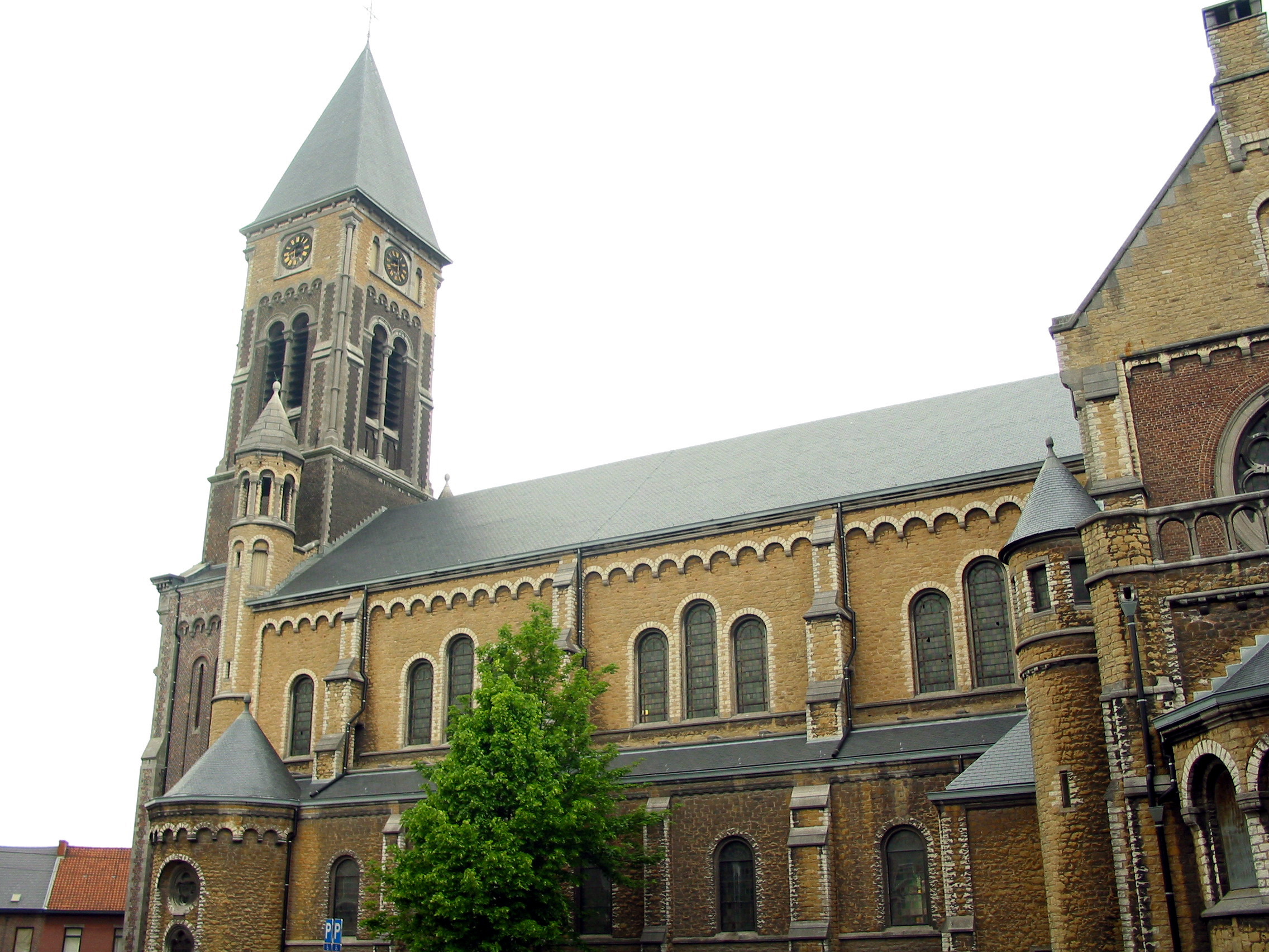 Jemappes (Belgium), the St. Martin church (1863 -architect: J. Van Ysendyck).